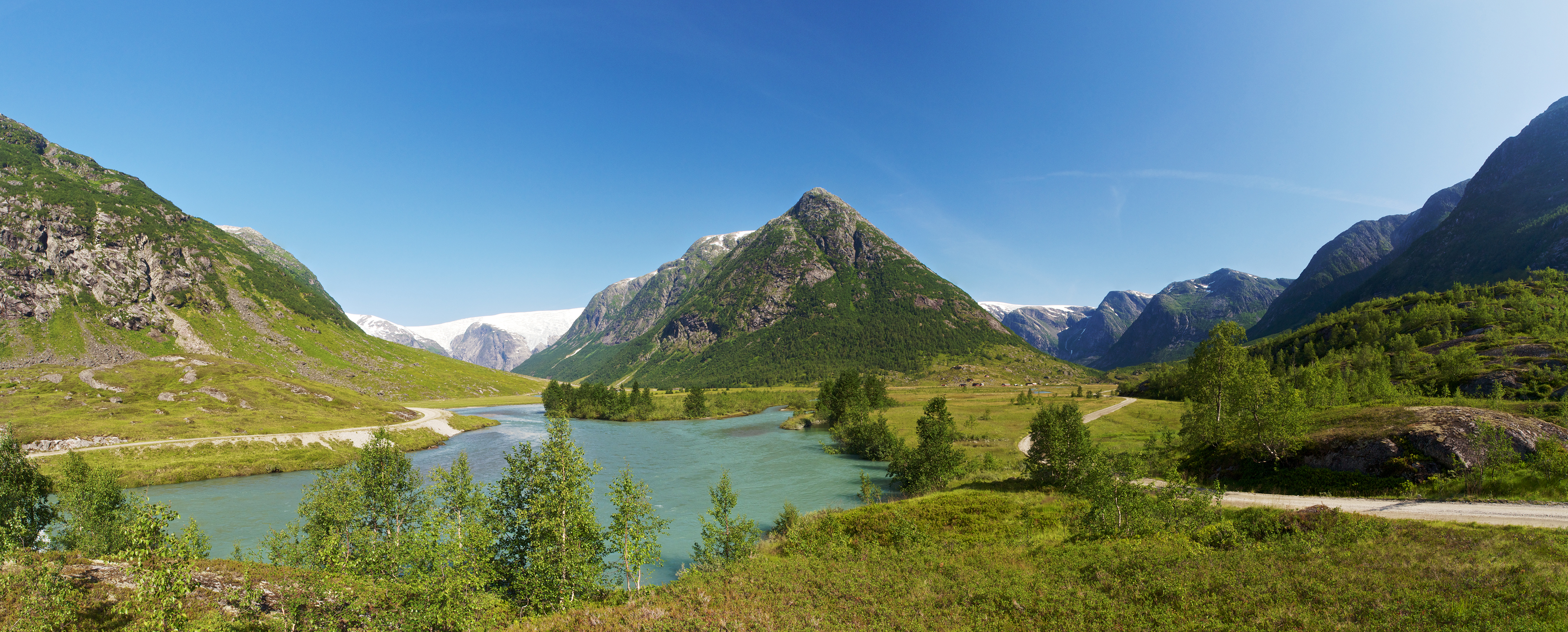 Storelvi with Austerdalen (right) and Langedalen (left), Sogn og Fjordane, Norway